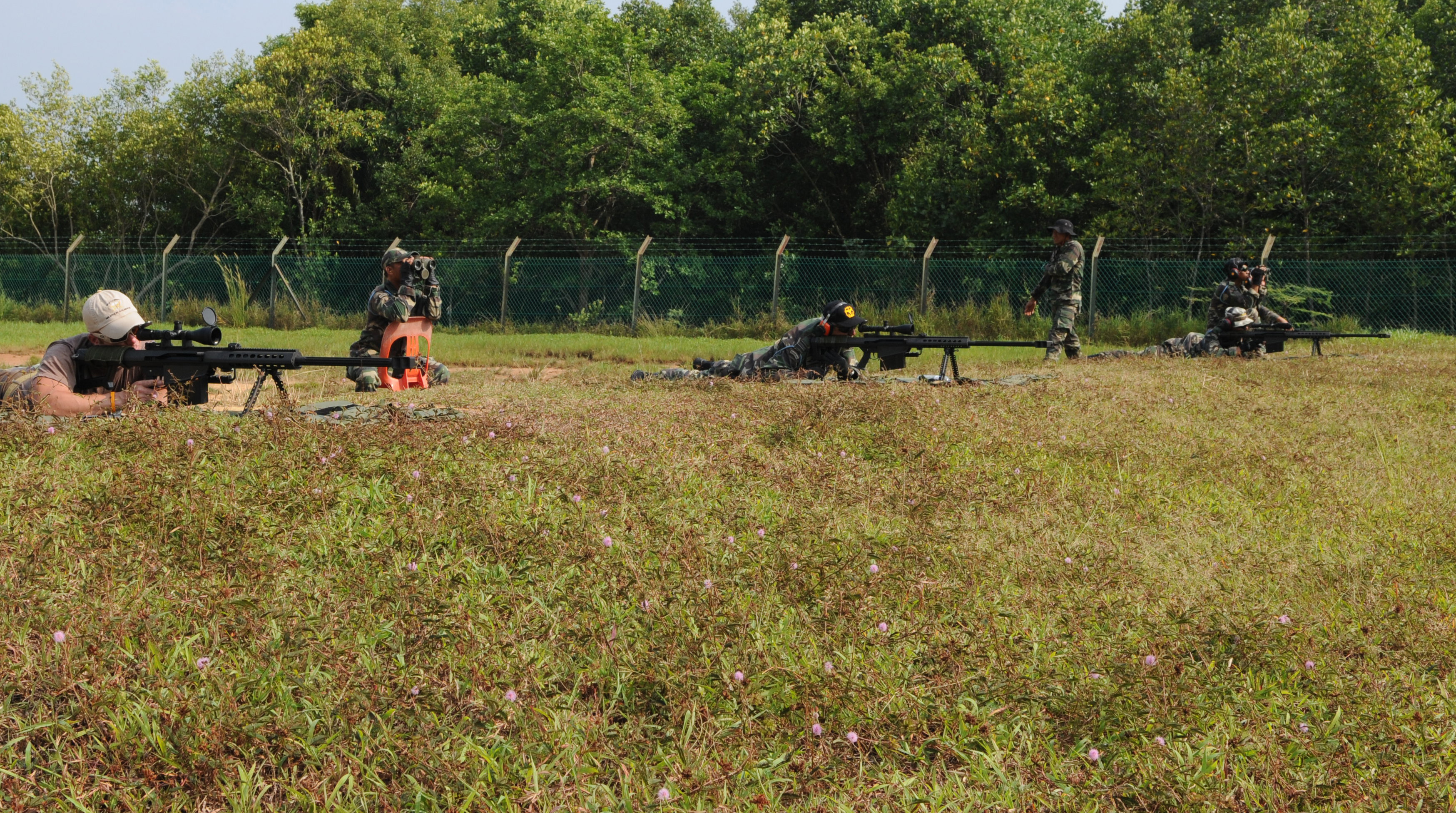 5/31/2009 - A members of the 320th Special Tactics Squadron and PASKAU members of the Royal Malaysian Air Force line up their shots using a M107 .50 caliber sniper rifle during a tactical long range shooting course here May 29 as part of Teak Mint 09-1. Weapons specialists from the 320th STS taught members of 320th and PASKAU, the special operations branch of the Royal Malaysian Air Force, during the two-day course. Teak Mint 09-1 is a training exchange designed to enhance U.S and Malaysian military training and capabilities. U.S Aif Force photo by Tech. Sgt. Aaron Cram.